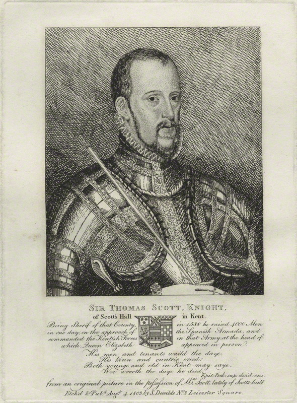 Sir Thomas Scott (d.1594), 1803 copy of an original painting then owned by Mrs Scott, late of Scott's Hall, Kent. Engraving by and published by Samuel De Wilde etching, published 4 August 1803 7 5/8 in. x 5 5/8 in. (195 mm x 142 mm) plate size Given by the daughter of compiler William Fleming MD, Mary Elizabeth Stopford (née Fleming), 1931 Reference Collection NPG D25400